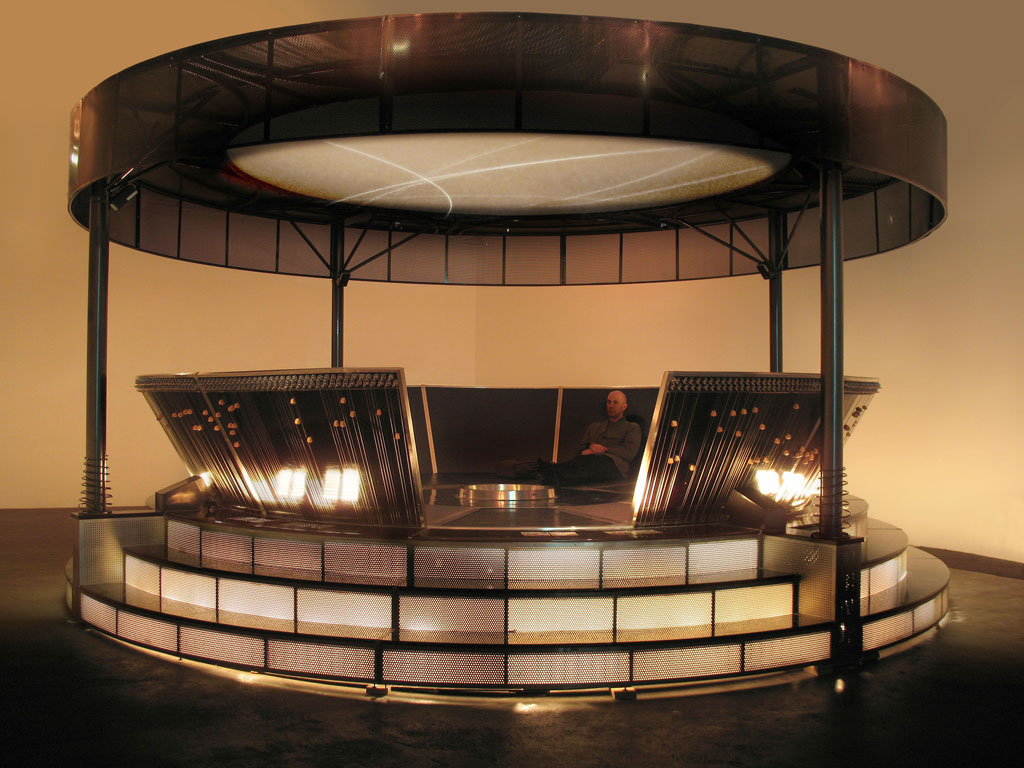 View of artwork 'Musical Wheel', Osage Gallery